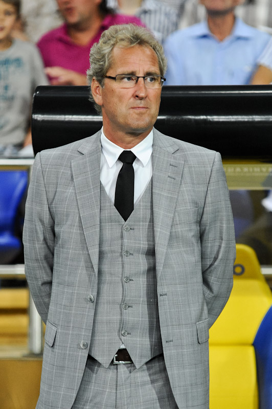 Swedish football manager Erik Hamrén during international match Ukraine vs. Sweden